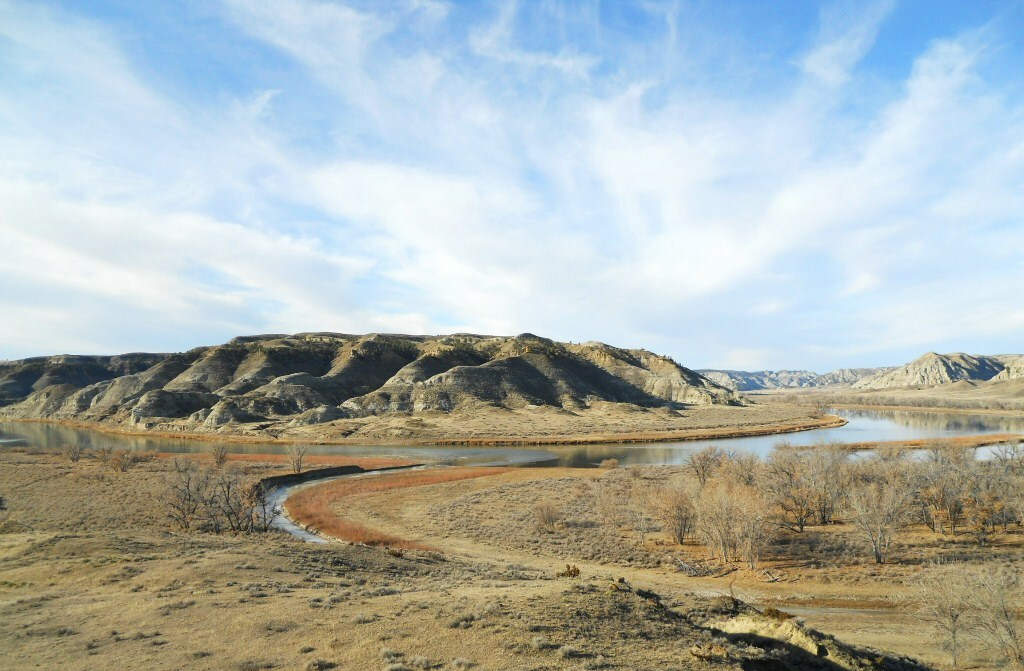 The mouth of Cow Creek, where it flows into the Missouri. Sediments from Cow Creek form Cow Island a short distance downstream. Cow Creek provided a pathway from the northern Montana plains down through the Missouri Breaks to the Missouri River. Cow Island made crossing the Missouri easier. On the south side of the river a relatively short (4 to 6 miles) but steep climb up the reavines gained the Montana plains south of the Missouri. This pathway was used for centuries by migrating bison and nomadic Indians. Now migrating bison and nomadic Indians are gone, and Cow Creek and Cow Island are isolated portions of the remote Missouri Breaks.